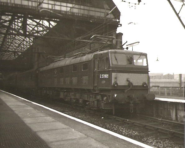 Manchester Piccadilly station Electric loco awaits departure with a train for Sheffield, on the old Woodhead route.